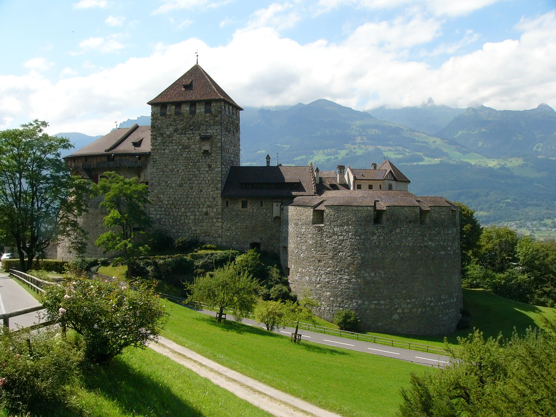 Castle of Vaduz in Liechtenstein